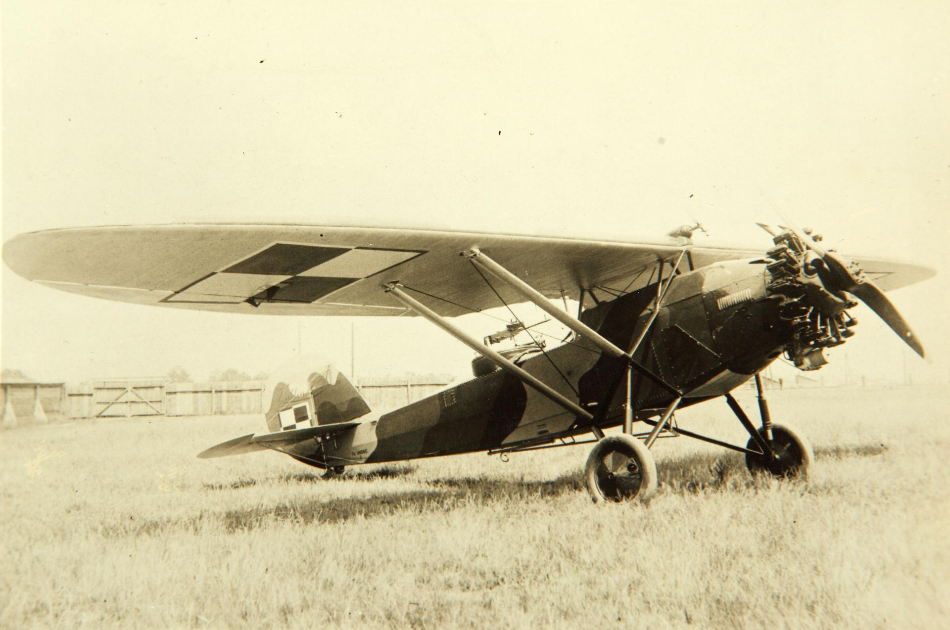 Lublin R-XIII